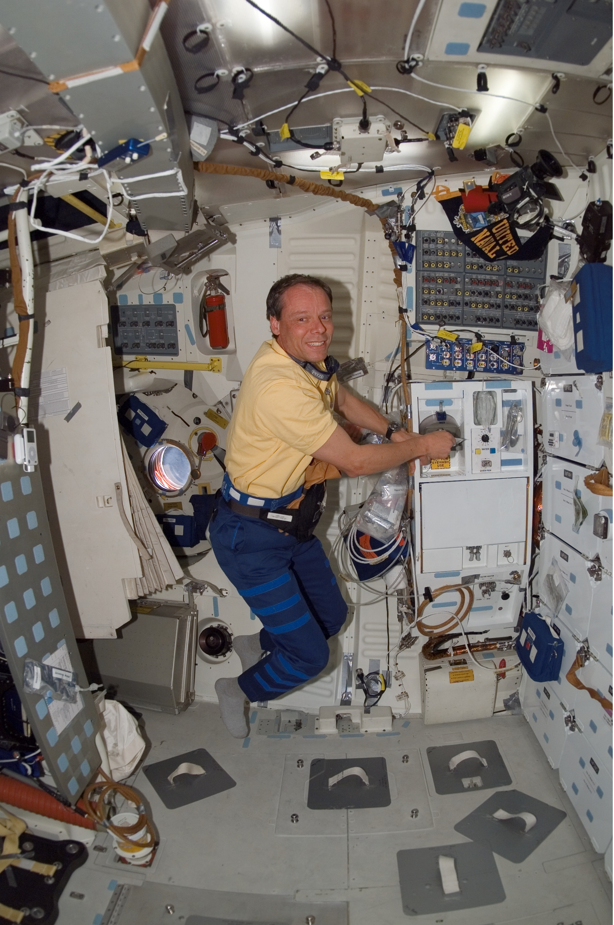 STS-116 Shuttle Mission Imagery S116-E-05407 (11 Dec. 2006) --- European Space Agency (ESA) astronaut Christer Fuglesang, STS-116 mission specialist, prepares a meal at the galley on the middeck of Space Shuttle Discovery.